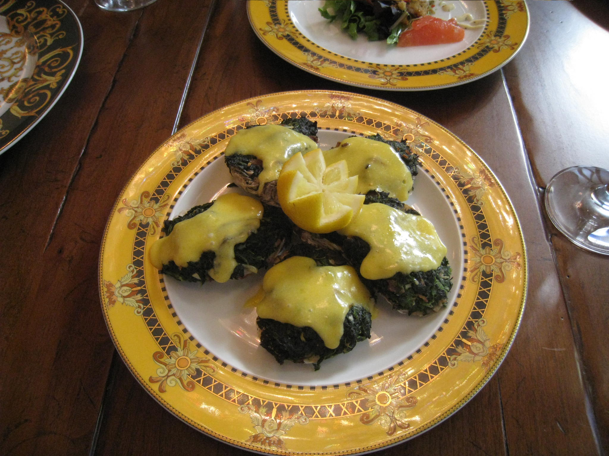 Oysters Rockefeller is a dish consisting of oysters on the half-shell that have been topped with various other ingredients (often spinach or parsley, cheese, a rich butter sauce and bread crumbs) and are then baked or broiled. This version, served at Table One, Sinclair's Restaurant, French Lick, Indiana, includes hollandaise sauce as the final topping.